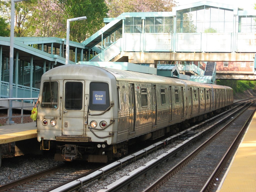 Staten Island Railway R44SI #448 at Great Kills Station, at the end of its run.